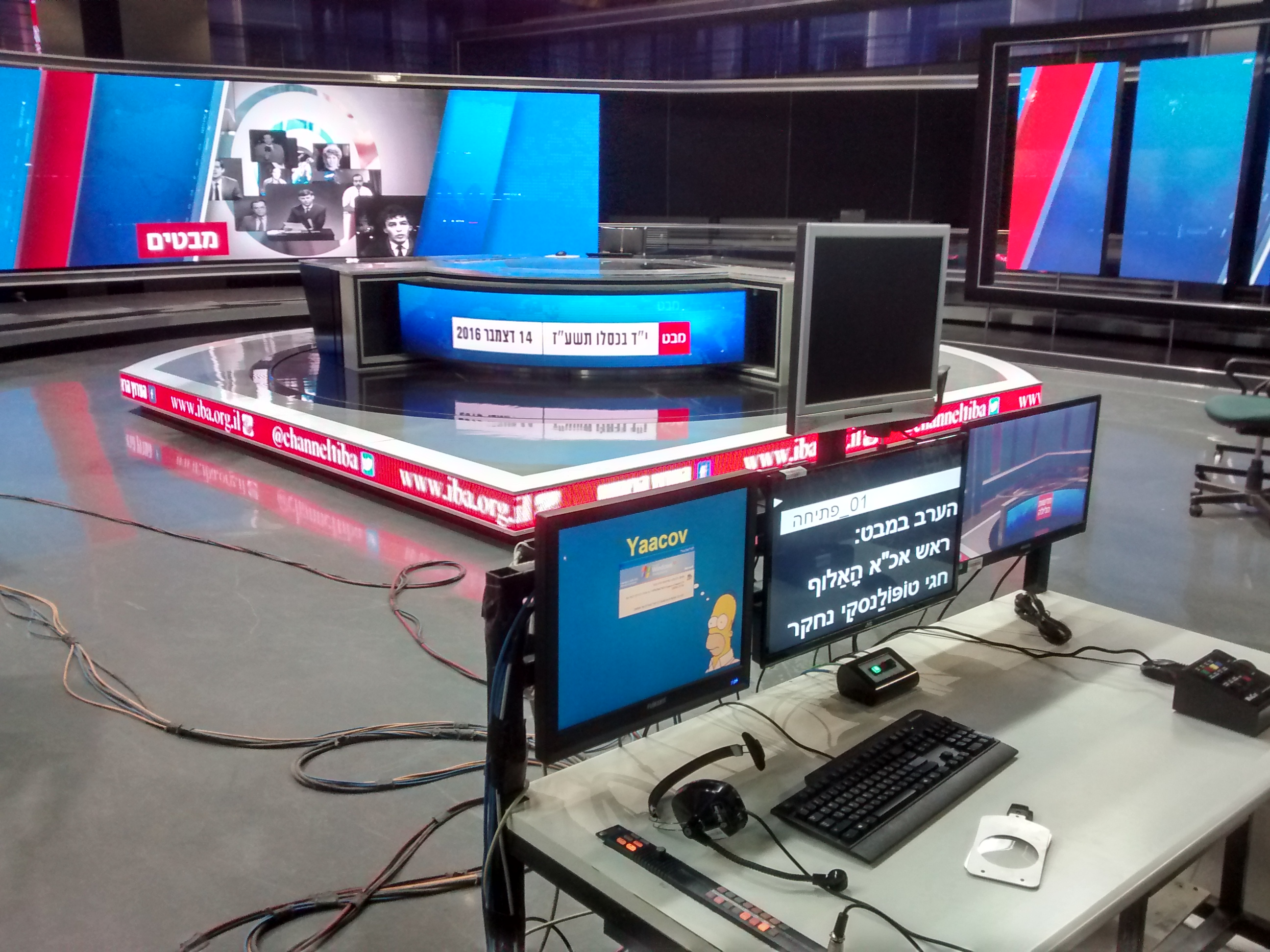 Israel Channel 1 news studio in Jerusalem 2016, Mabat LaHadashot